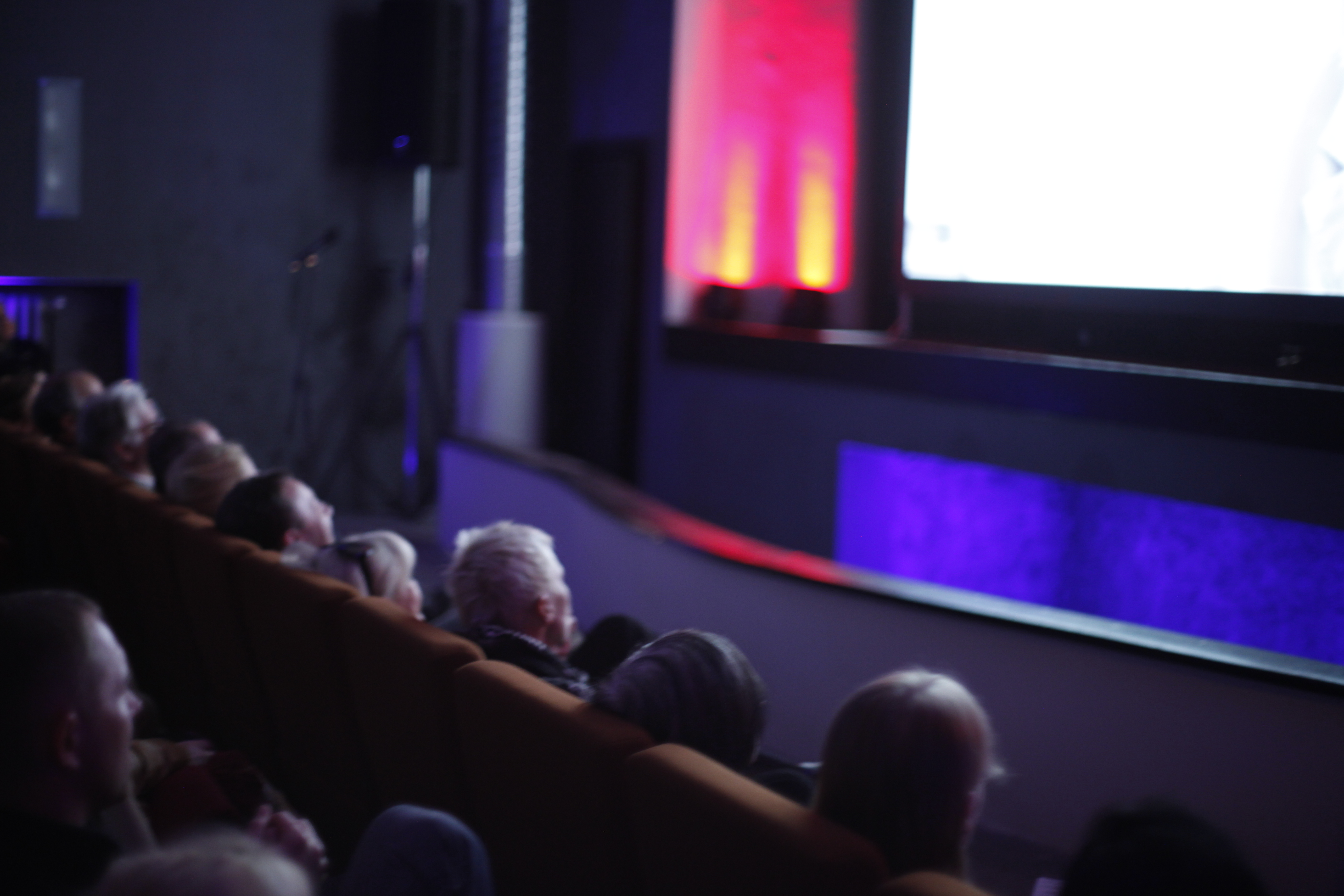 Sokołowsko Festival Hommage á Kieślowski 2011